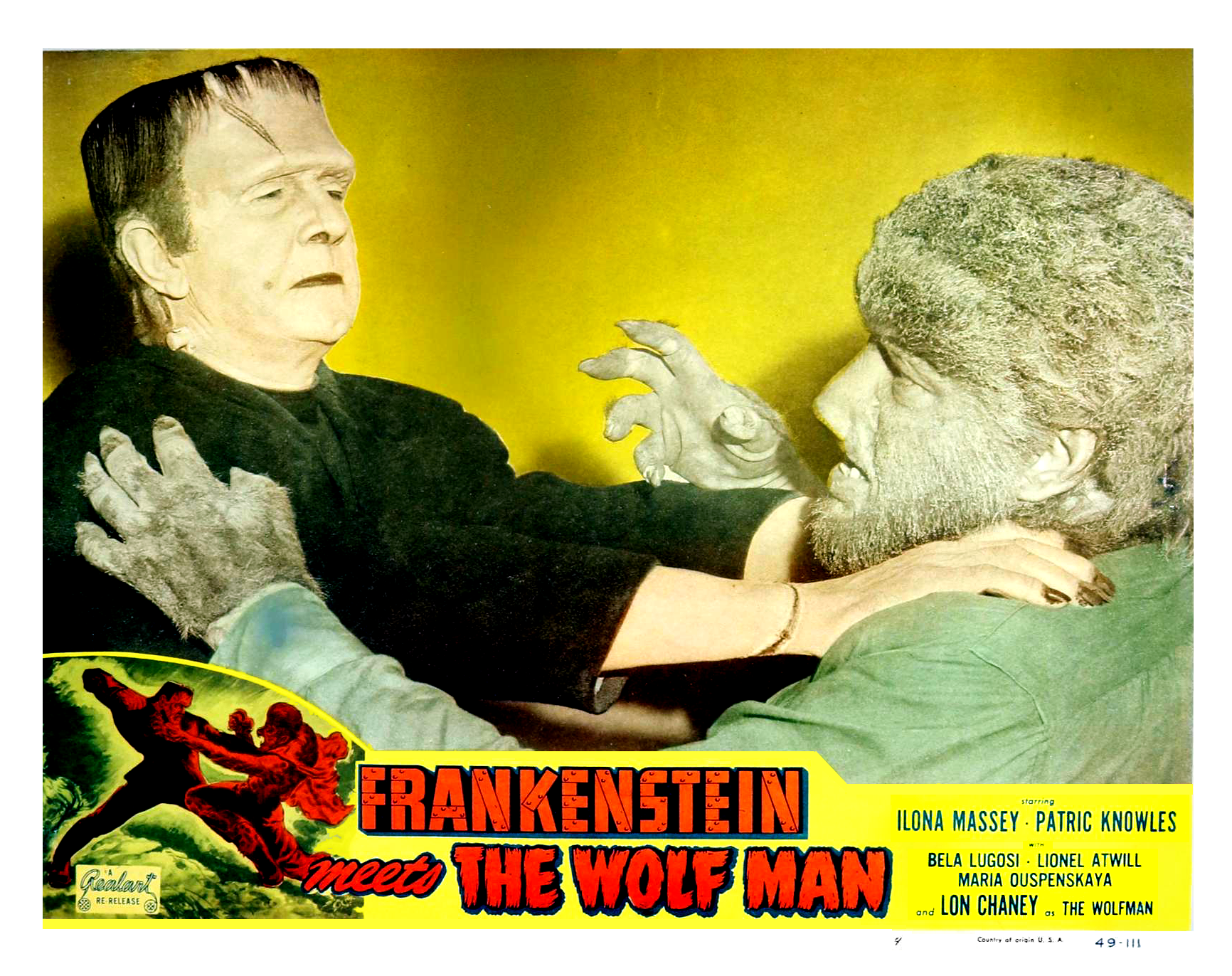 Colored lobby card for Frankenstein Meets the Wolfman (Universal, 1943), featuring Bela Lugosi and Lon Chaney Jr. Image is assumed to be in the public domain as no copyright is in evidence.